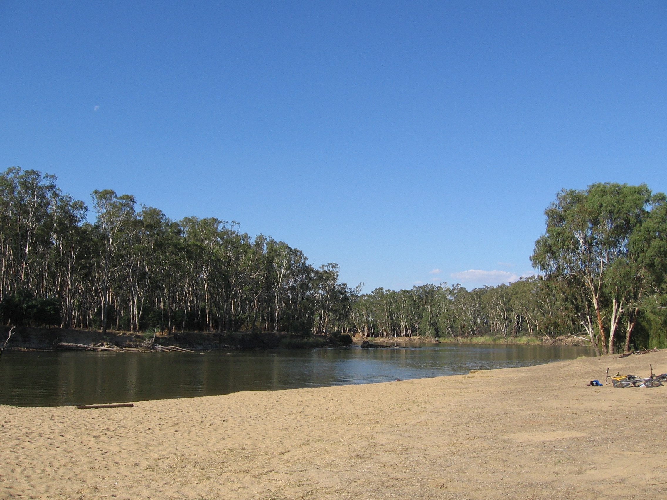 Town Beach in Tocumwal, New South Wales.